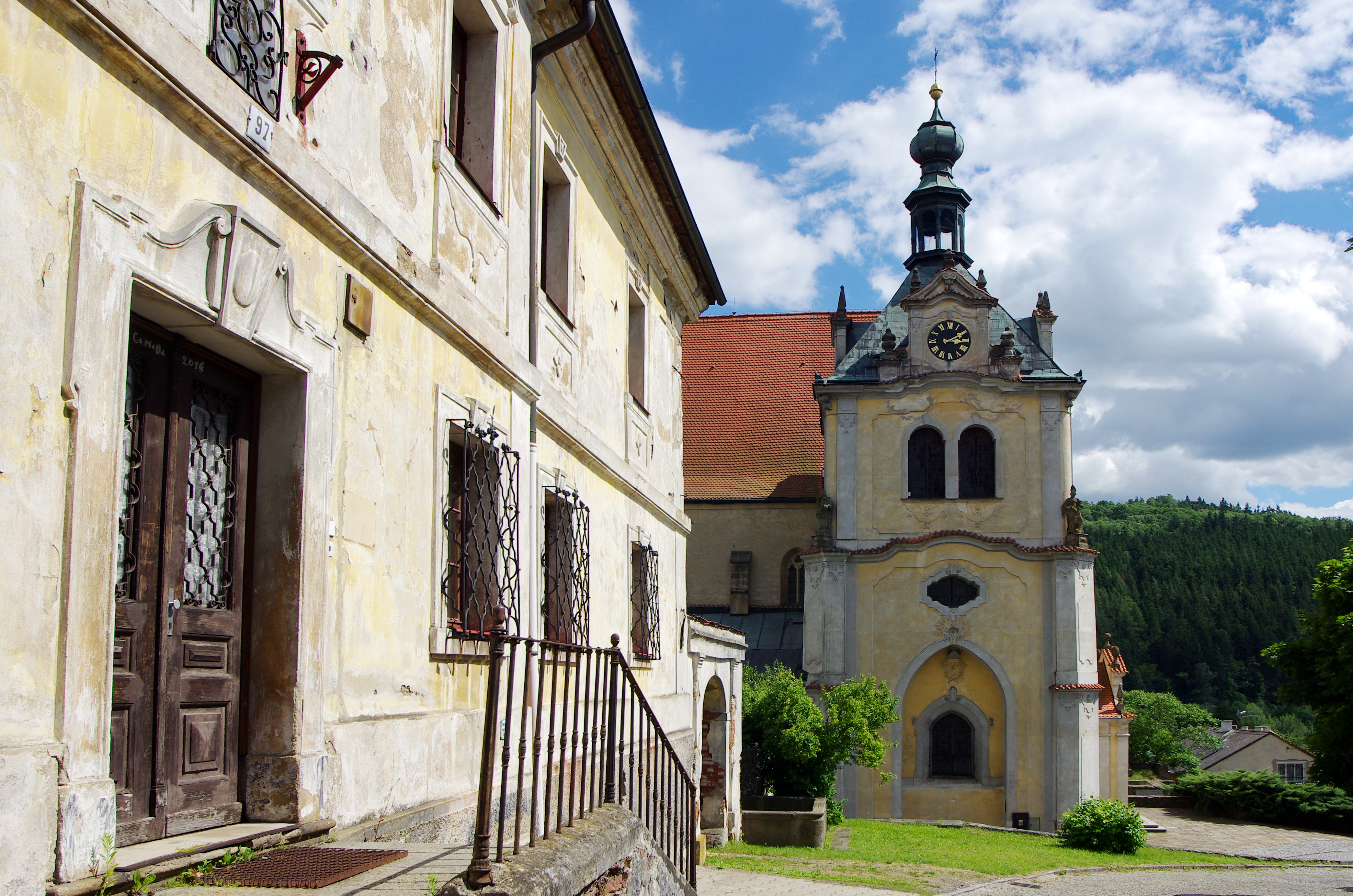 Church of Peter and Paul in Žlutice